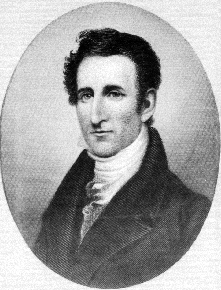 An engraving (c. 1826, authorship unknown) of John Tyler, the 23rd Governor of the U.S. state of Virginia. Tyler would later become the 10th President of the United States.